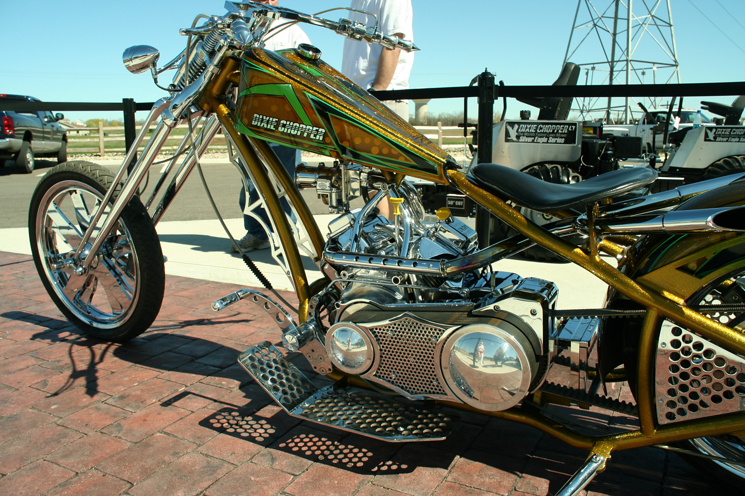 Dixie Chopper (lawn mowers) custom motorcycle by Orange County Choppers on display at a lawn mower retailer in Indiana.